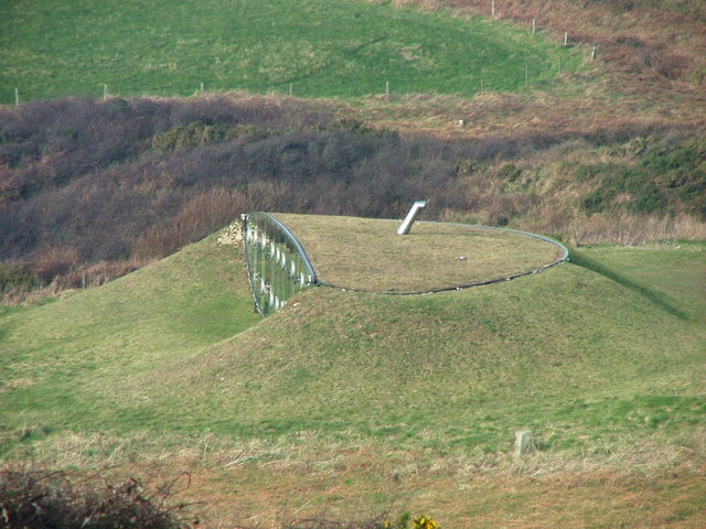 Underground house underground house "Malator" overlooking Druidston Haven